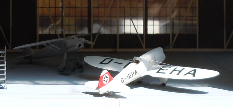 Model of the Henschel Hs 125. There are some more pics of the same model on